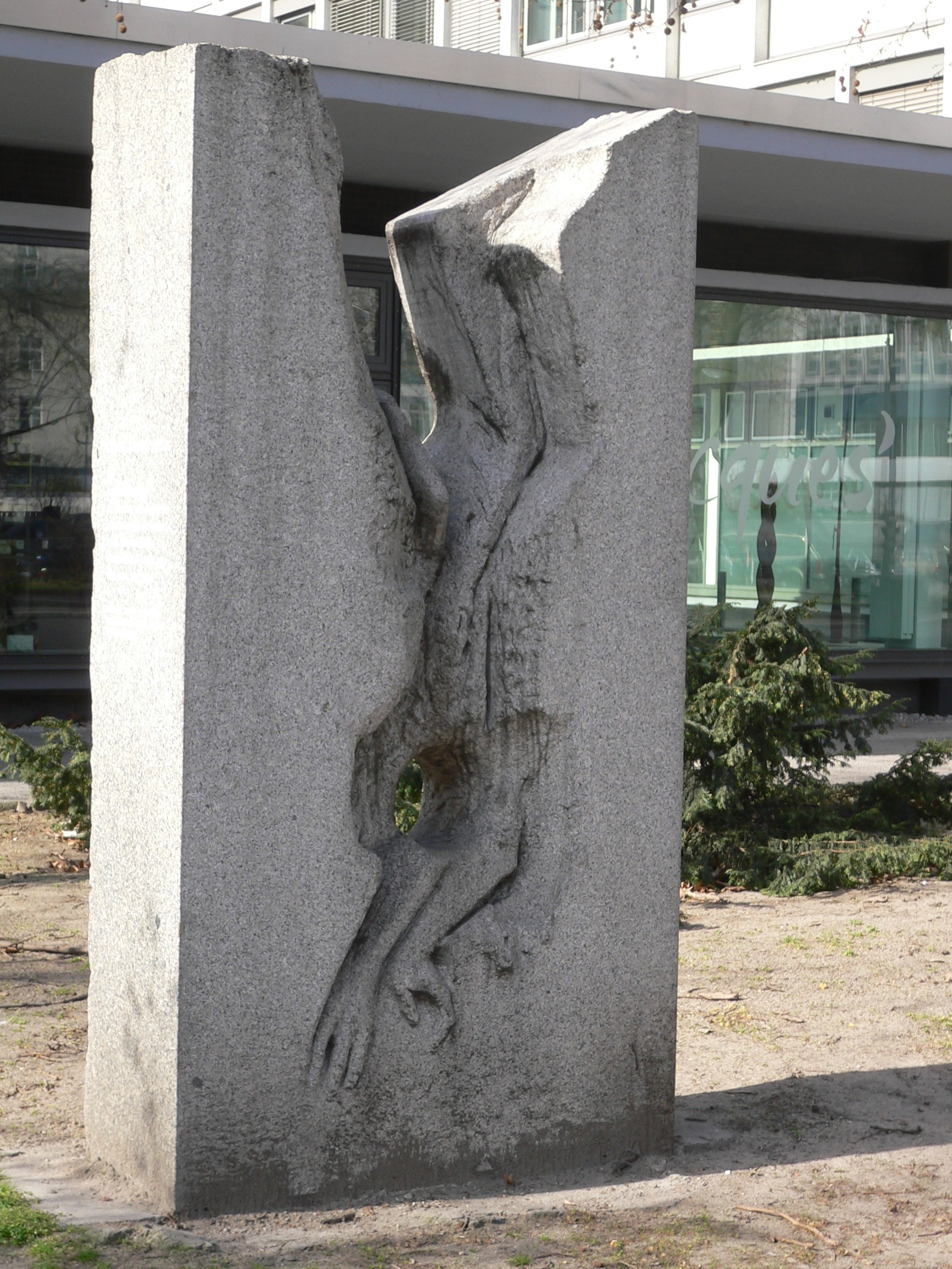 Cemal Kemal Altun Memorial by Akbar Behkalam, Hardenbergstraße 20, Berlin-Charlottenburg, Germany